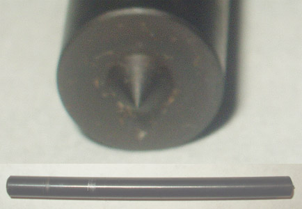 Transfer-punch tool,main portion of image shows relevant punch in detail.